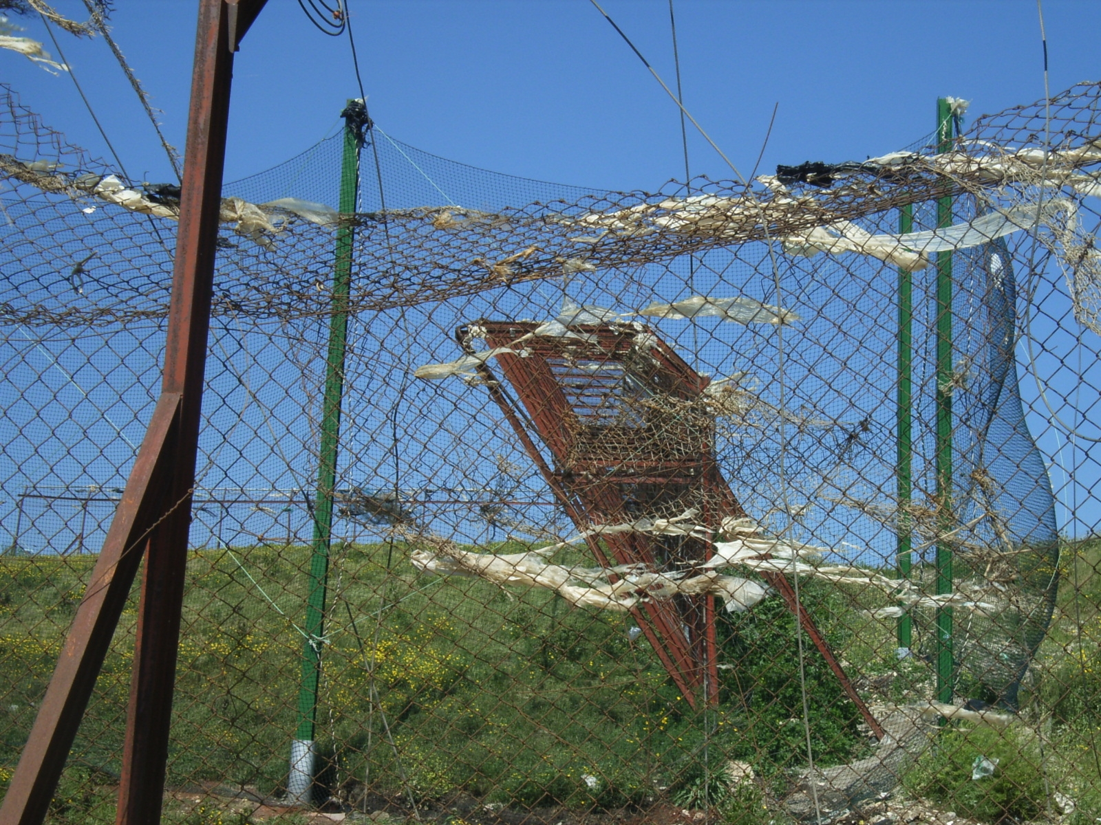 Detail of Marseille landfill near Entressens.